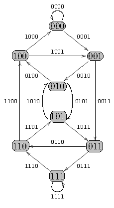 De Bruijn graph for n=2, k=3